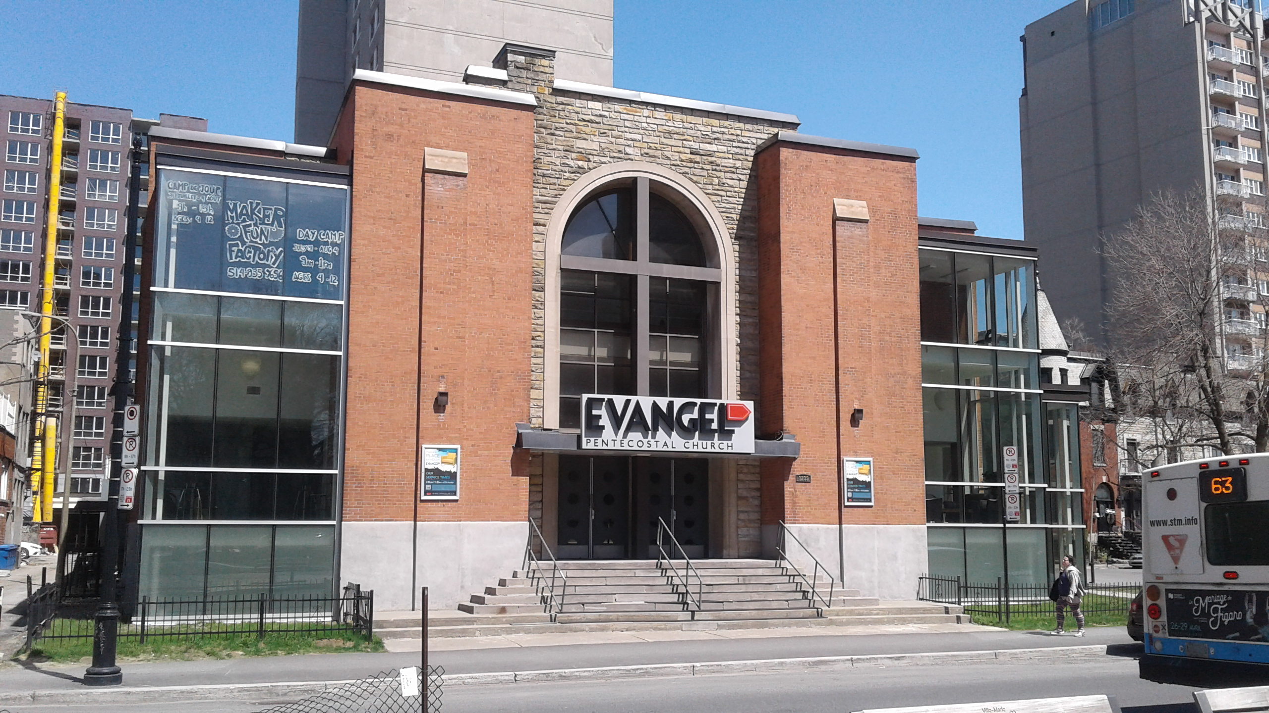 Evangel Pentecostal Church Main Campus: 1235 Lambert-Closse, Montreal